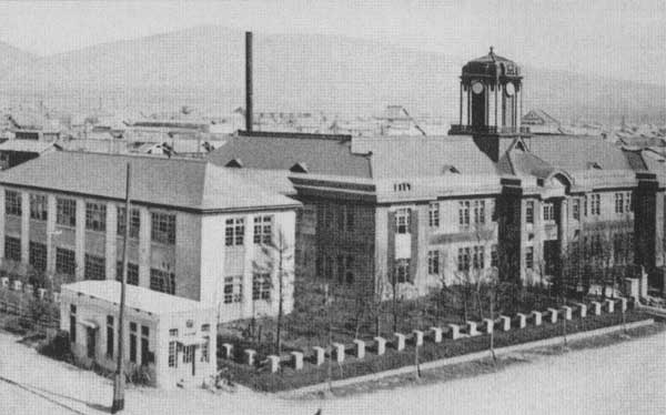 Karafuto (Sakhalin) railroads headquarters in Toyohara (present-day Yuzhno-Sakhalinsk)